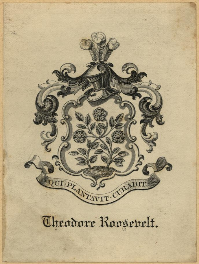 Armorial/Heraldic Bookplates. Subject: Armor; Floral; Foliage. Subject - Personal Name: Roosevelt, Theodore. Subject - Occupation: President of the United States; Historian; Author.